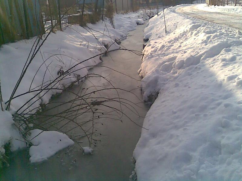 Januar 2010. Frost -20.